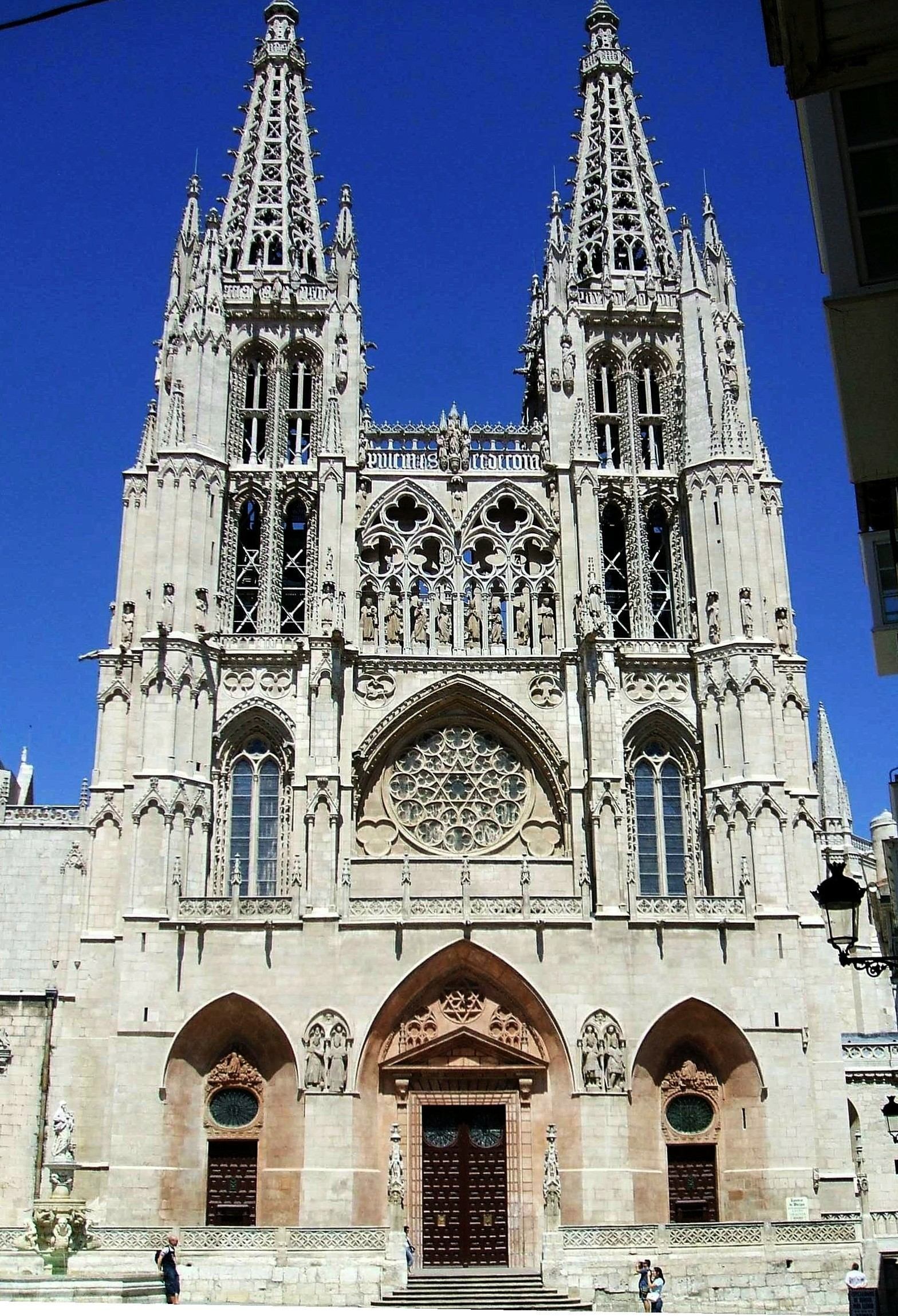 Catedral de Burgos (España), fachada de Santa María